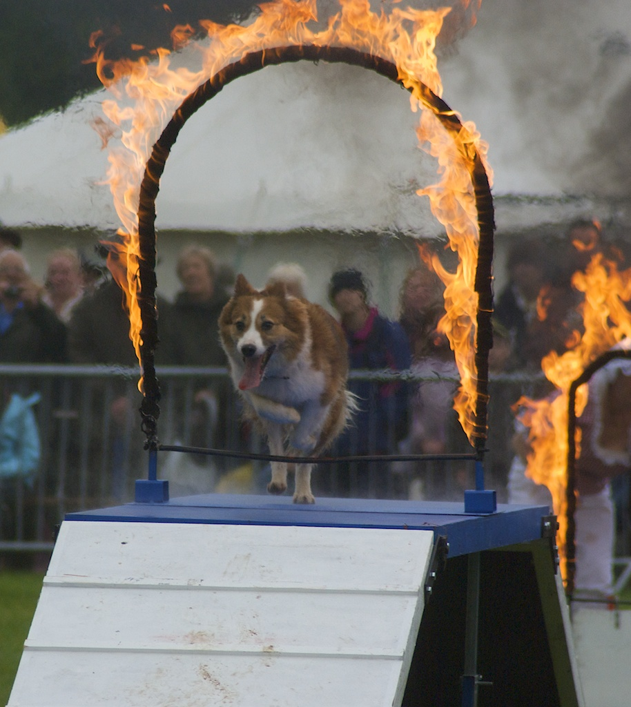 Dog agility and obedience trials at Monmouth Show. No animals were harmed. It was very grey day with continuous drizzle throughout. I was wiping rain drops off the lens filter all day and shooting at high ISOs and low shutter speeds throughout. I got away with this one but border collies are a blur in dim light.